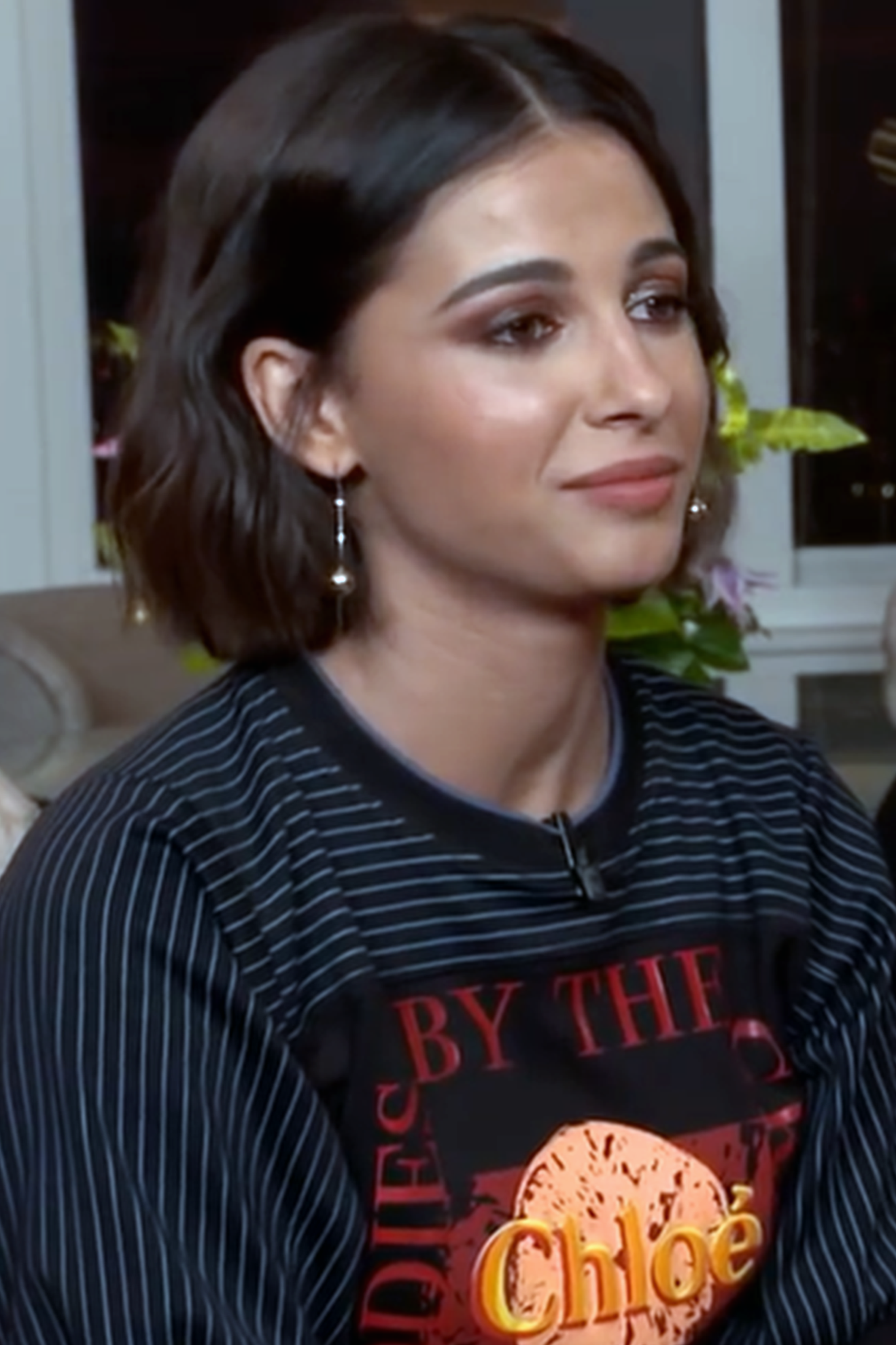 Naomi Scott during interview, November 2019.